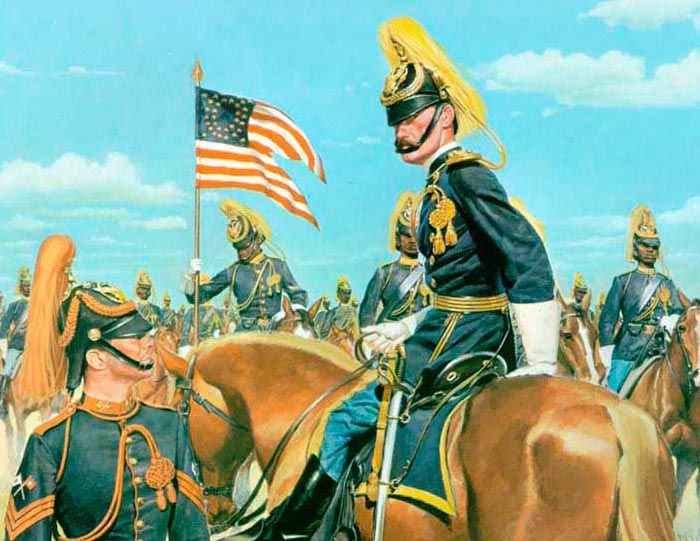 United States Army 1880. A sergeant of the Signal Corps can be seen on foot in the left foreground, while a mounted captain of the 9th Cavalry can be seen on the right.